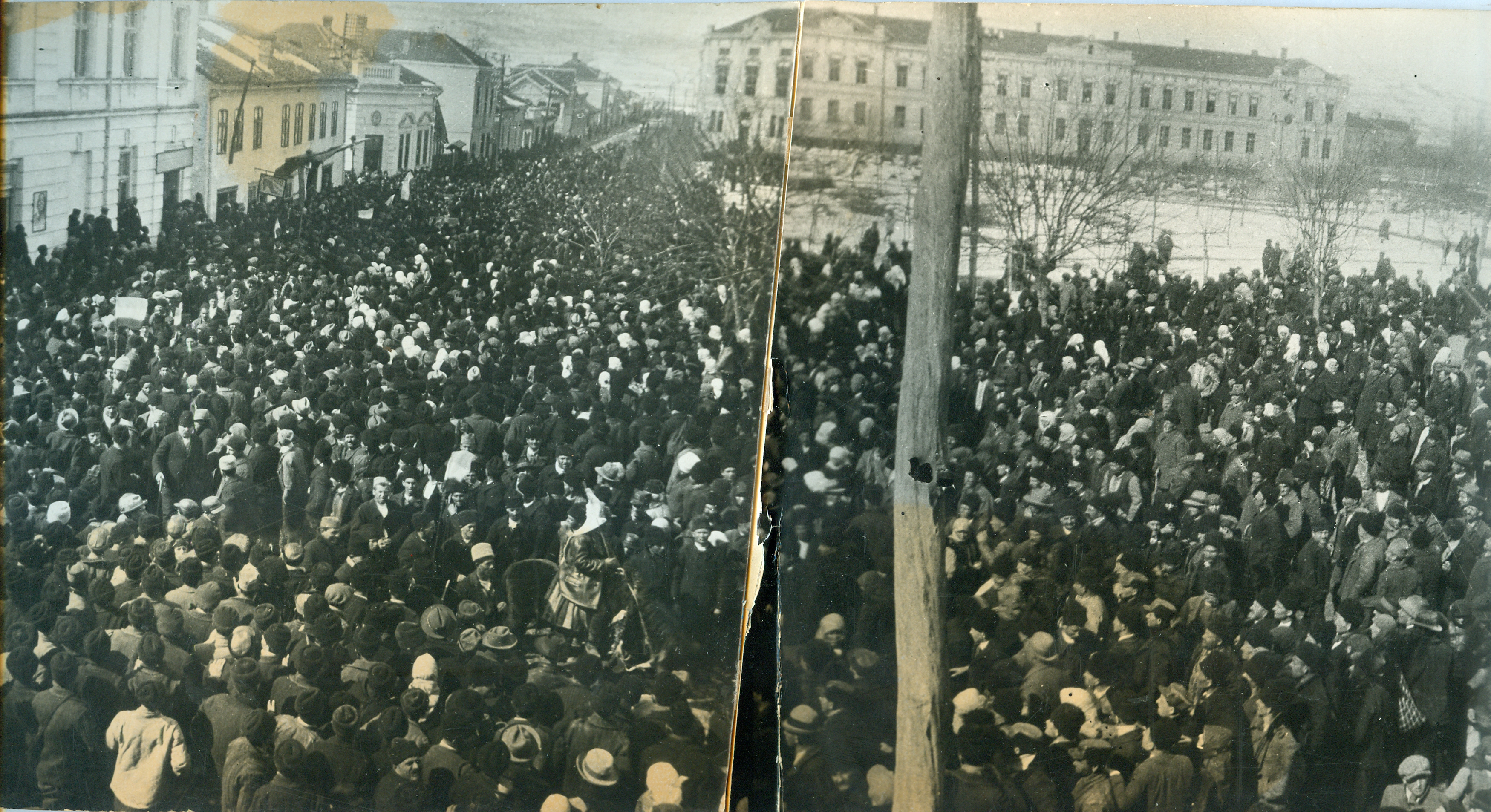 Political rally of Dragisa Stojadinovic in Negotin 1936. Srpski (latinica): Veliki zbor Dragiše M. Stojadinovića 1936. u Negotinu